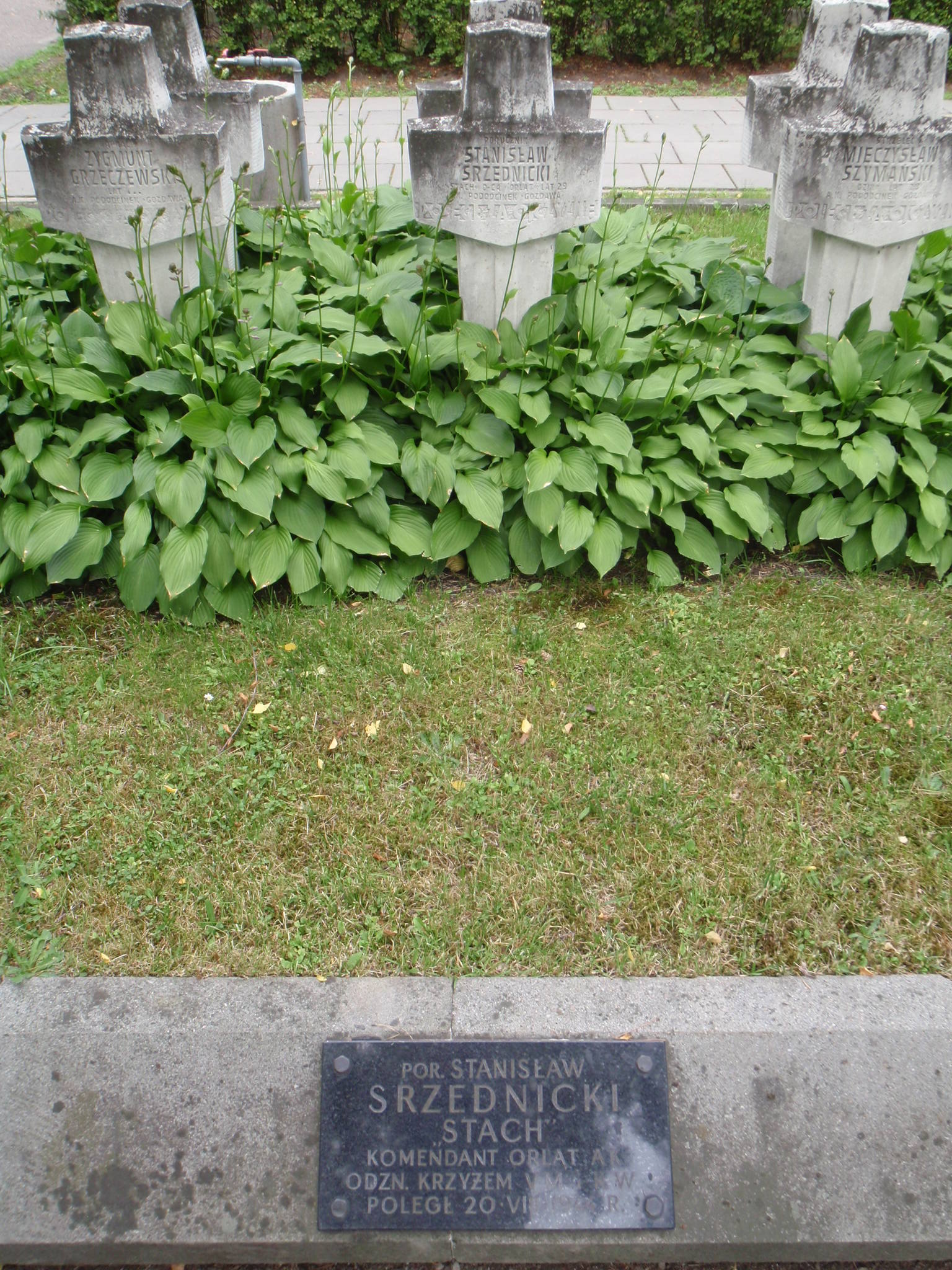 Grave of Stanisław Srzednicki